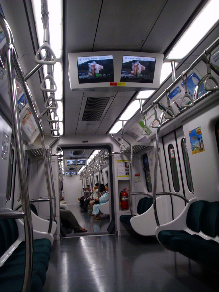 Interior of Gwangju Subway Line 1 Car